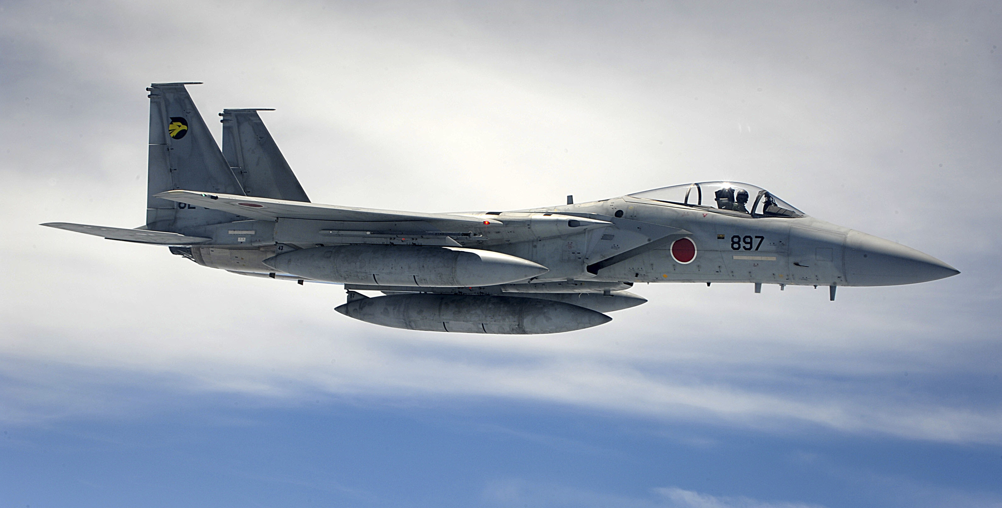 A Japanese Air Self Defense Force F-15J (897) of 306 Sqn flies alongside a U.S. Air Force KC-135 Stratotanker while waiting to refuel near Okinawa, Japan, May 10, 2012. The bilateral training with JASDF aims to improve interoperability between U.S. and Japanese air forces. (U.S. Air Force photo/Airman 1st Class Brooke P. Beers) Nikon D700